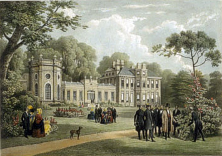 Orleans House at Twickenham - Hand-coloured lithograph